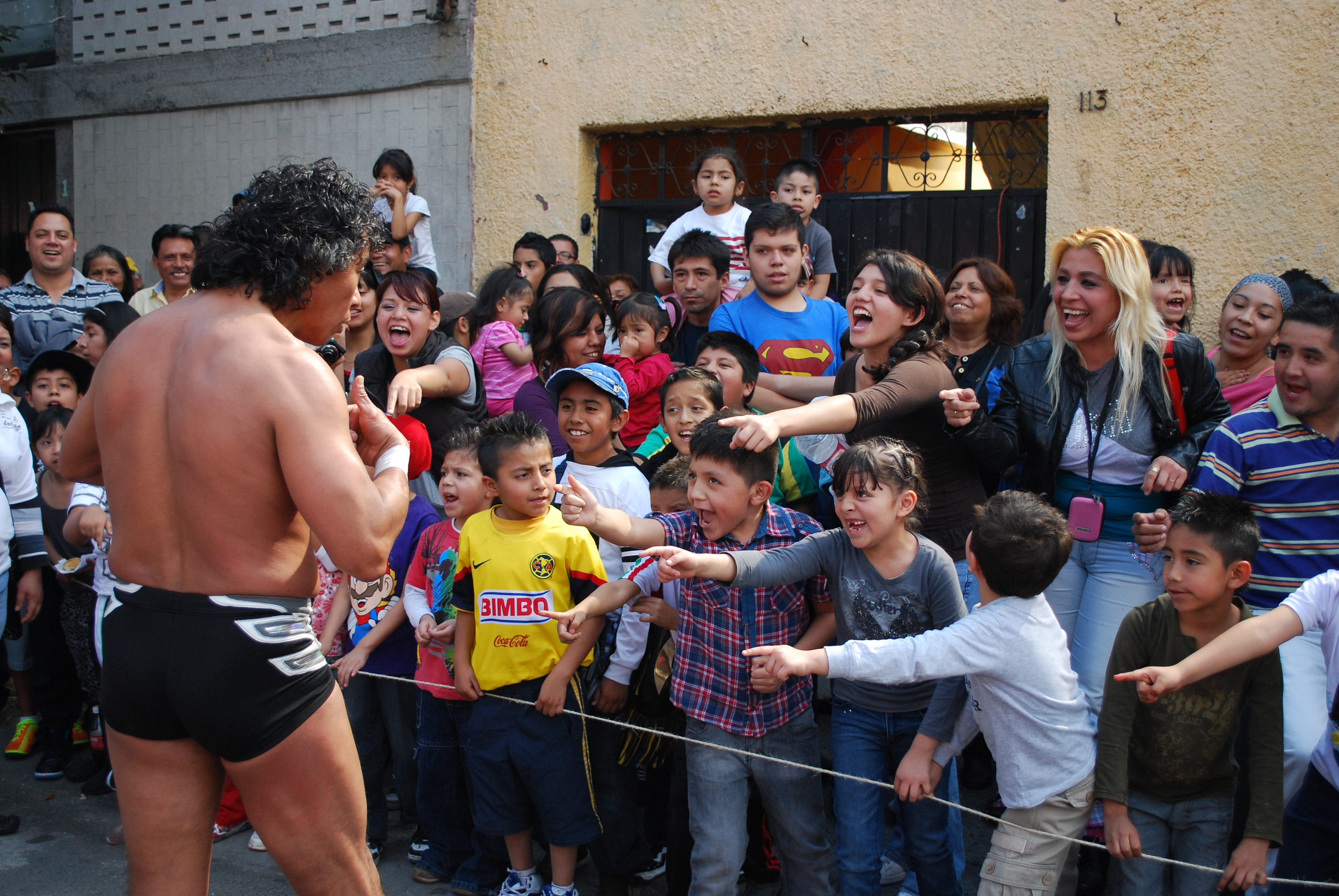 Negro Casas confronts jeering spectators at the last match at a CMLL lucha libre event part of Festival Día de Reyes Territorial Obrera Doctores in Mexico City